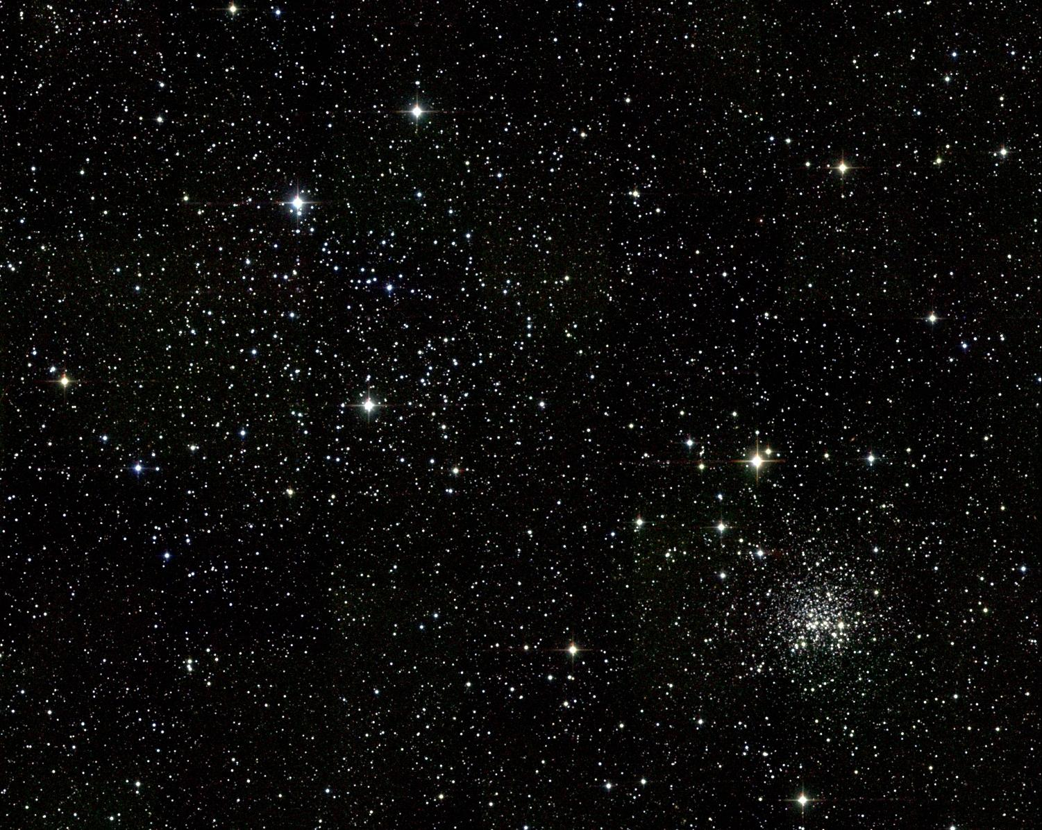 Image of M35 Credit: Atlas Image [or Atlas Image mosaic] obtained as part of the Two Micron All Sky Survey (2MASS), a joint project of the University of Massachusetts and the Infrared Processing and Analysis Center/California Institute of Technology, funded by the National Aeronautics and Space Administration and the National Science Foundation.